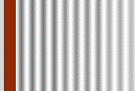 View of the shadows formed when plane waves are produced on a riple tank. Diagram drawn by Theresa Knott.